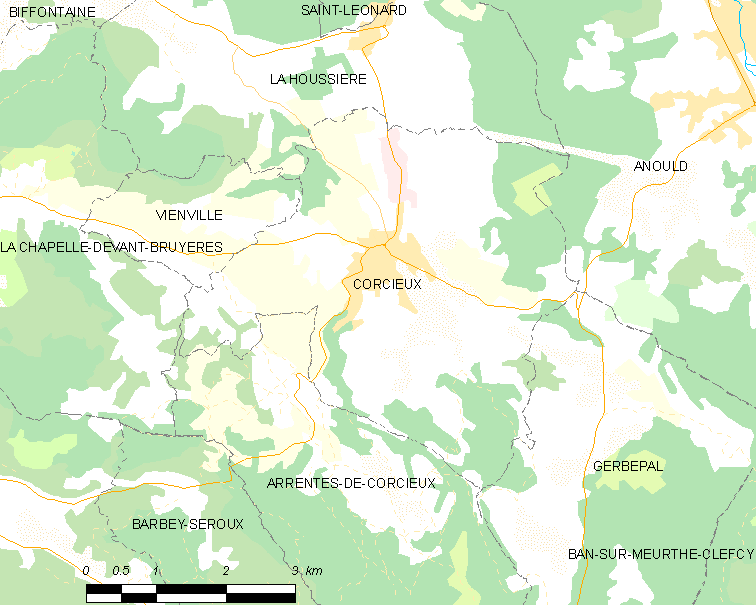 Map of French municipality Corcieux